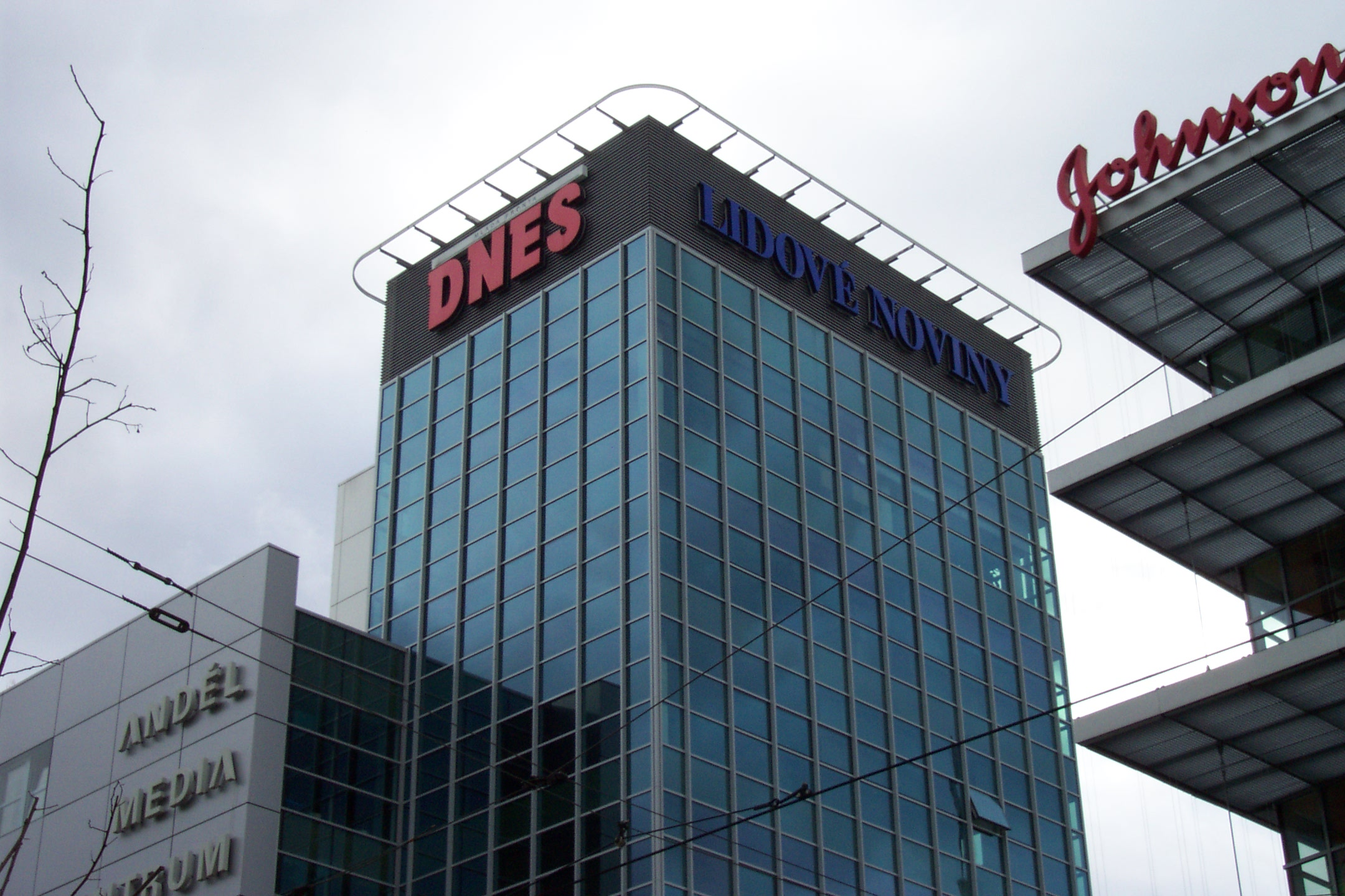 Prague-Smíchov, Radlická street, Anděl Media Centrum, HQ in Prague of MF Dnes and Lidové noviny, two major Czech newspapers.